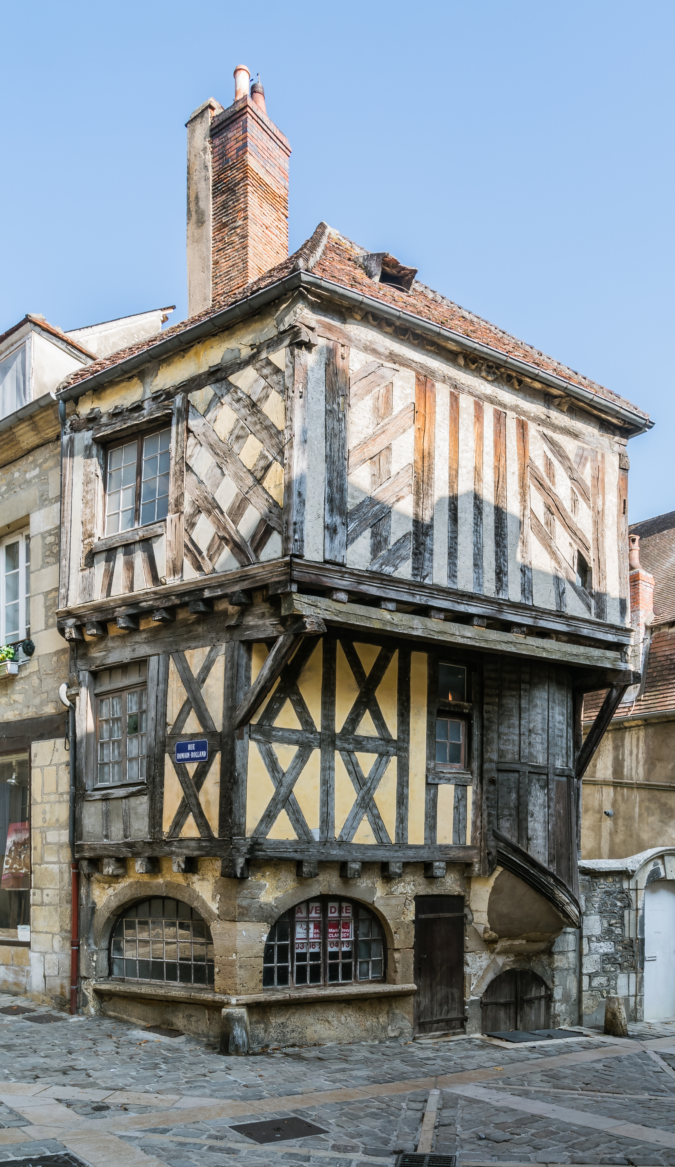 Building at 1 Rue du Pont Châtelain in Clamecy, Nièvre, France .